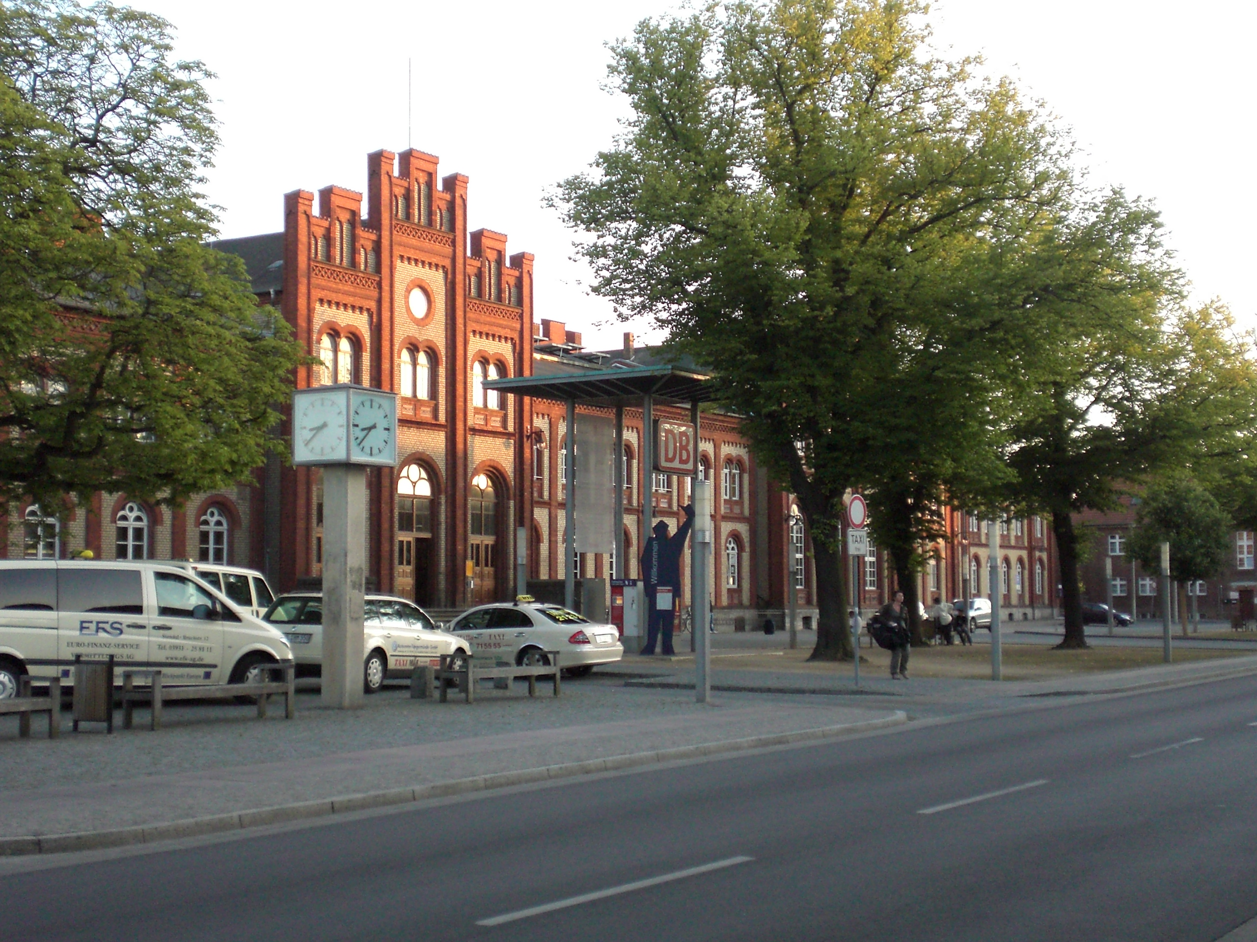 Train station in Stendal, Saxony-Anhalt, Germany